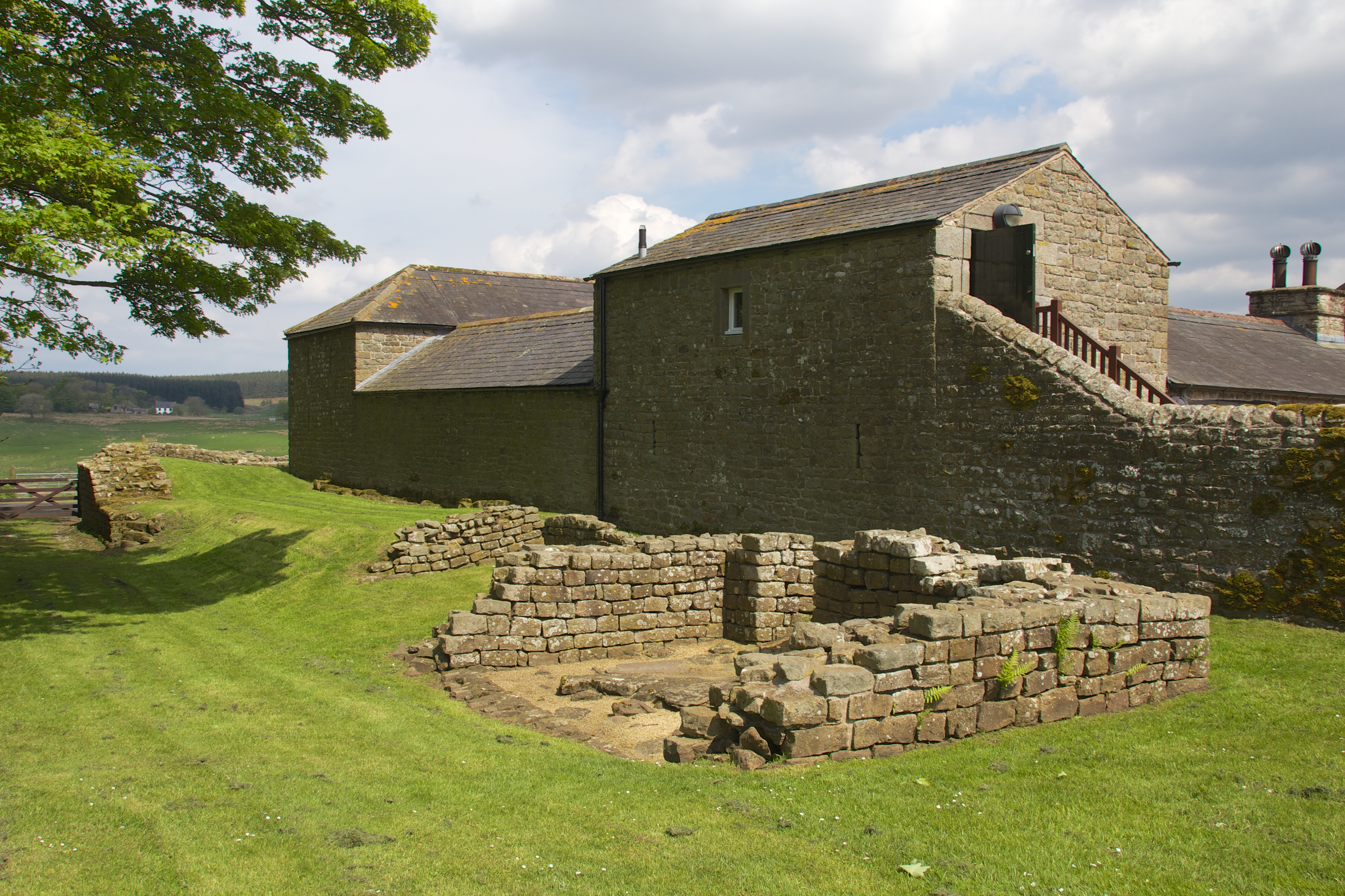 Birdoswald roman fort on Hadrian's Wall.